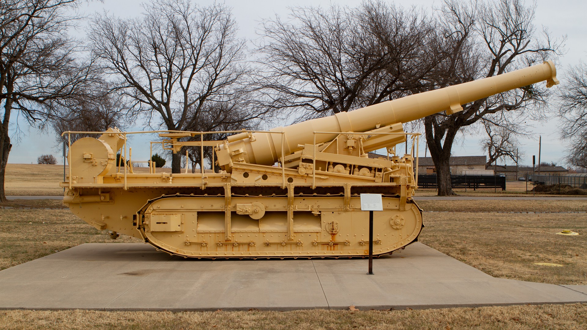 This is the only surviving example of a Canon de 194 mle in existence.